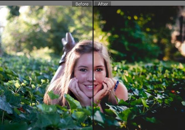 Color balanced girl